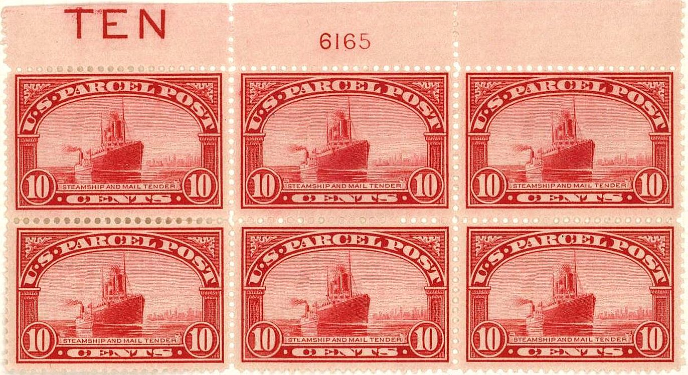 Image of a Parcel Post 'plate block' ox six, 10c, 1912 issue